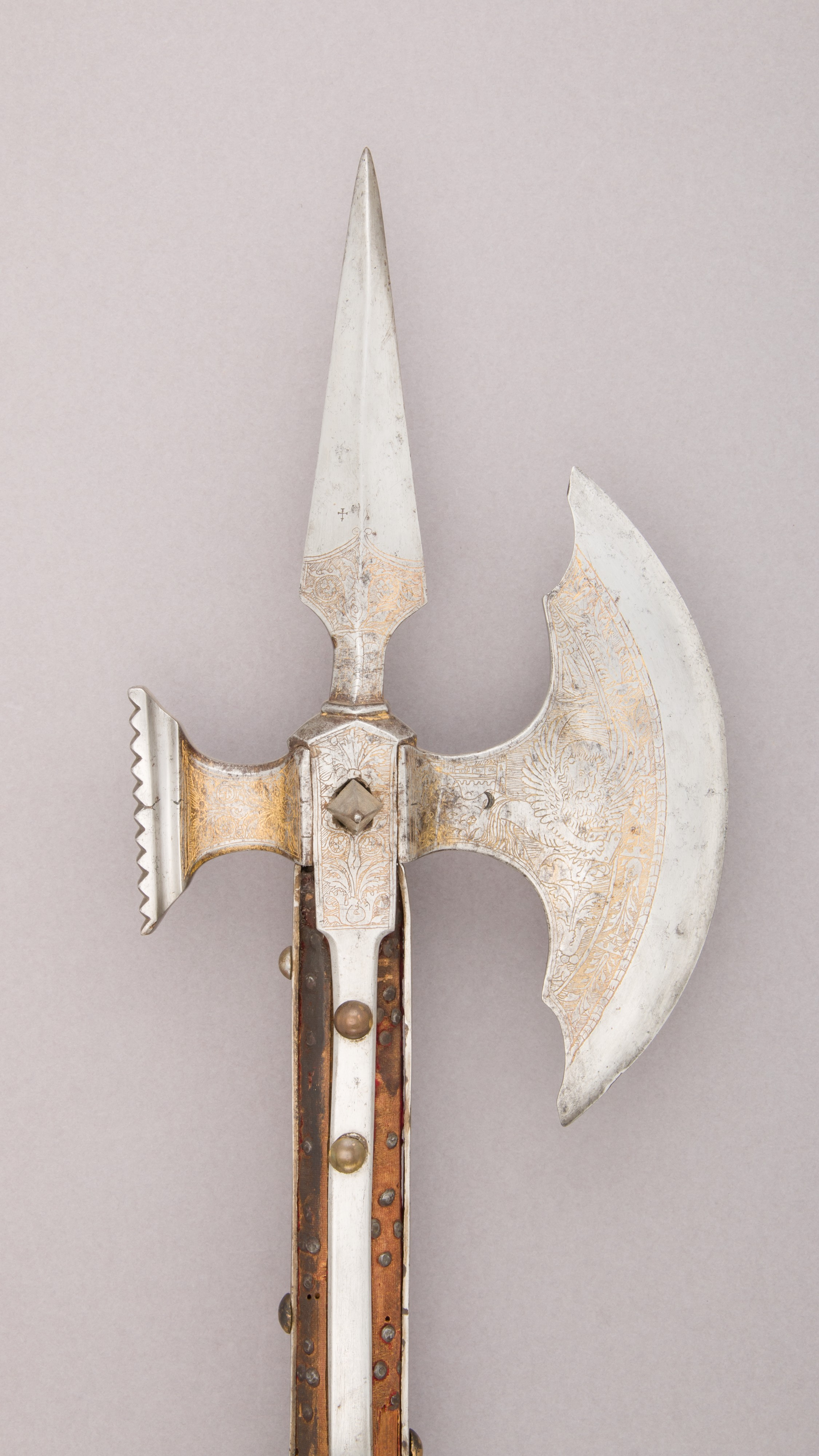 Italian, Venice; Pollaxe; Shafted Weapons